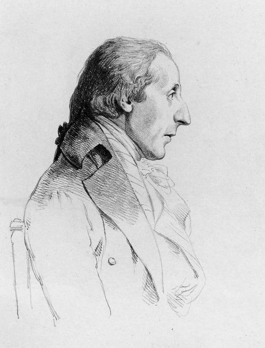 Sir John Anstruther, 4th Baronet (18753-1811)